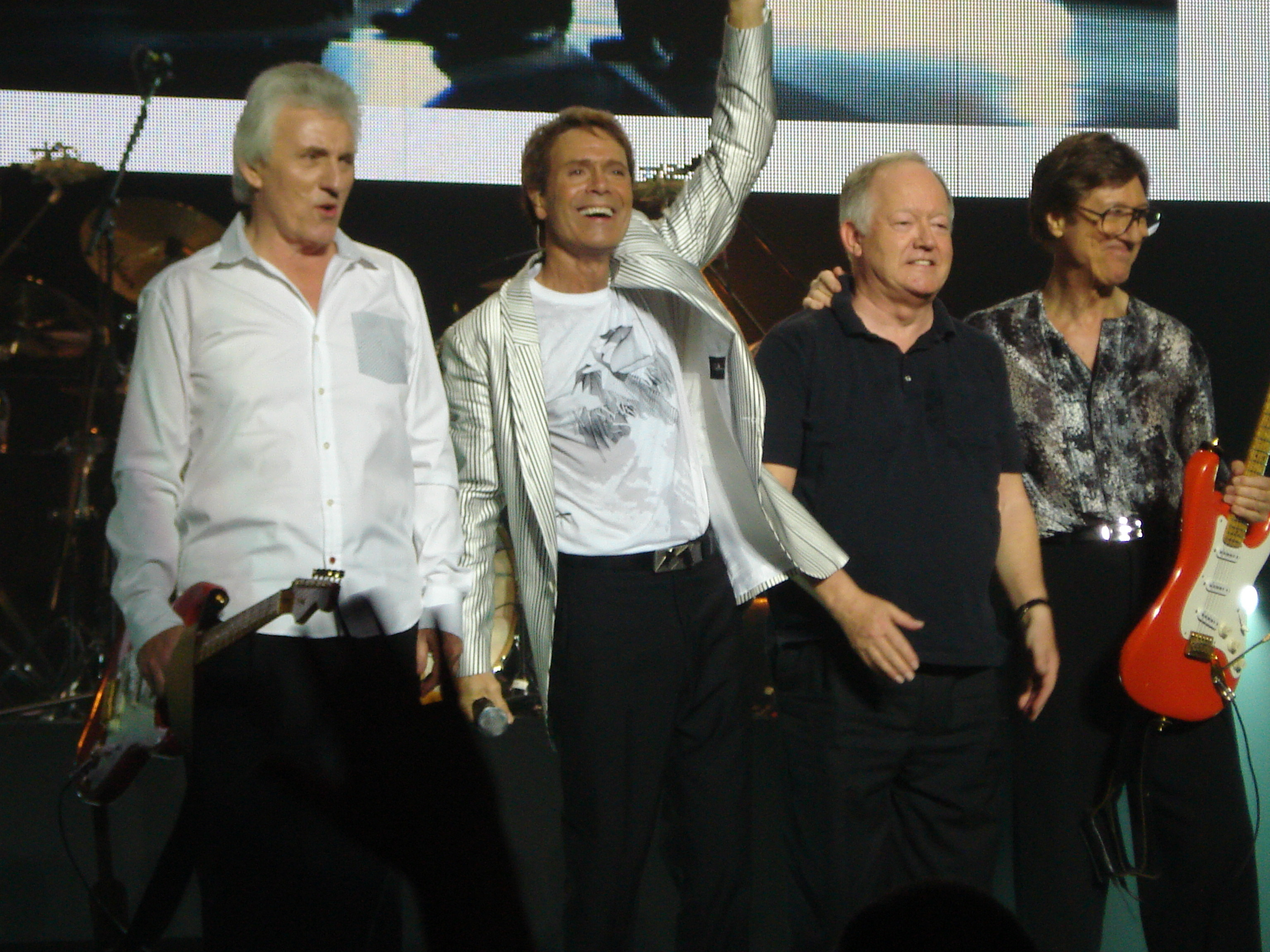 Cliff Richard & Shadows Final Reunion 2009 Brussels End of the Show